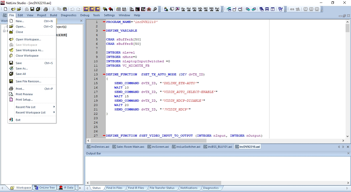 A screenshot of the Netlinx Studio IDE, which AV programmers use to code for AMX Control systems.